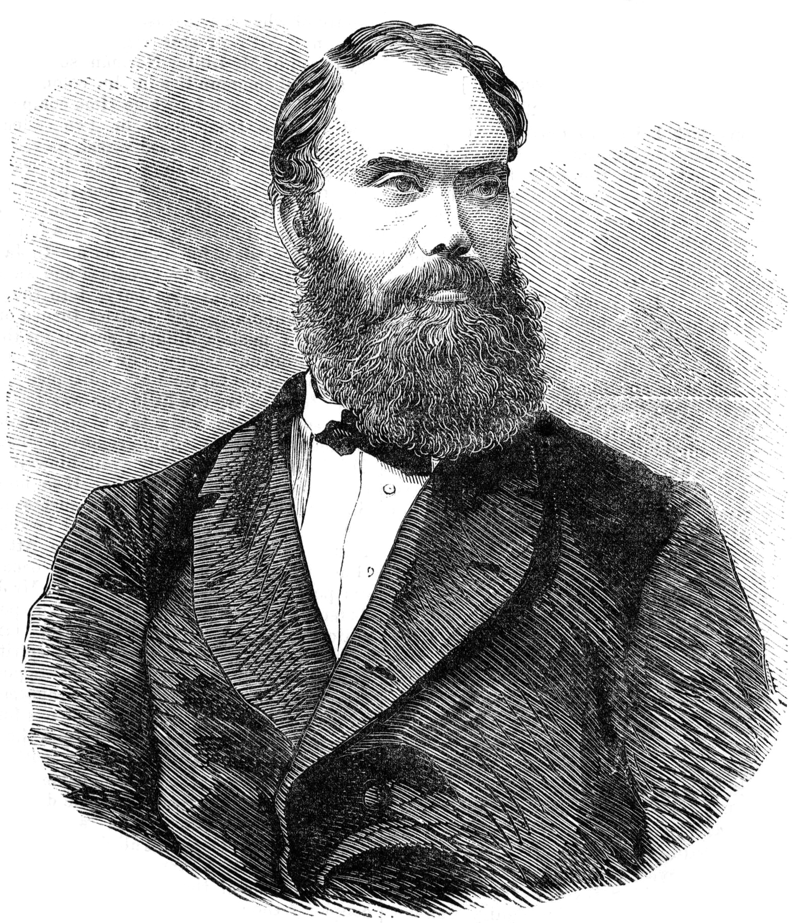 Portrait of James McKean (1832–1901)